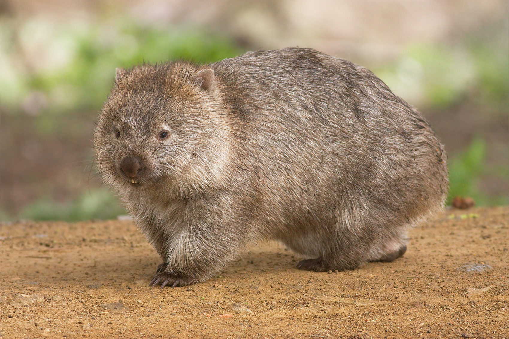 Common Wombat (Vombatus ursinus tasmaniensis) on Maria Island, Tasmania, Australia. The entire island is a national park, Maria Island National Park. The adult is just under a metre in length on average.